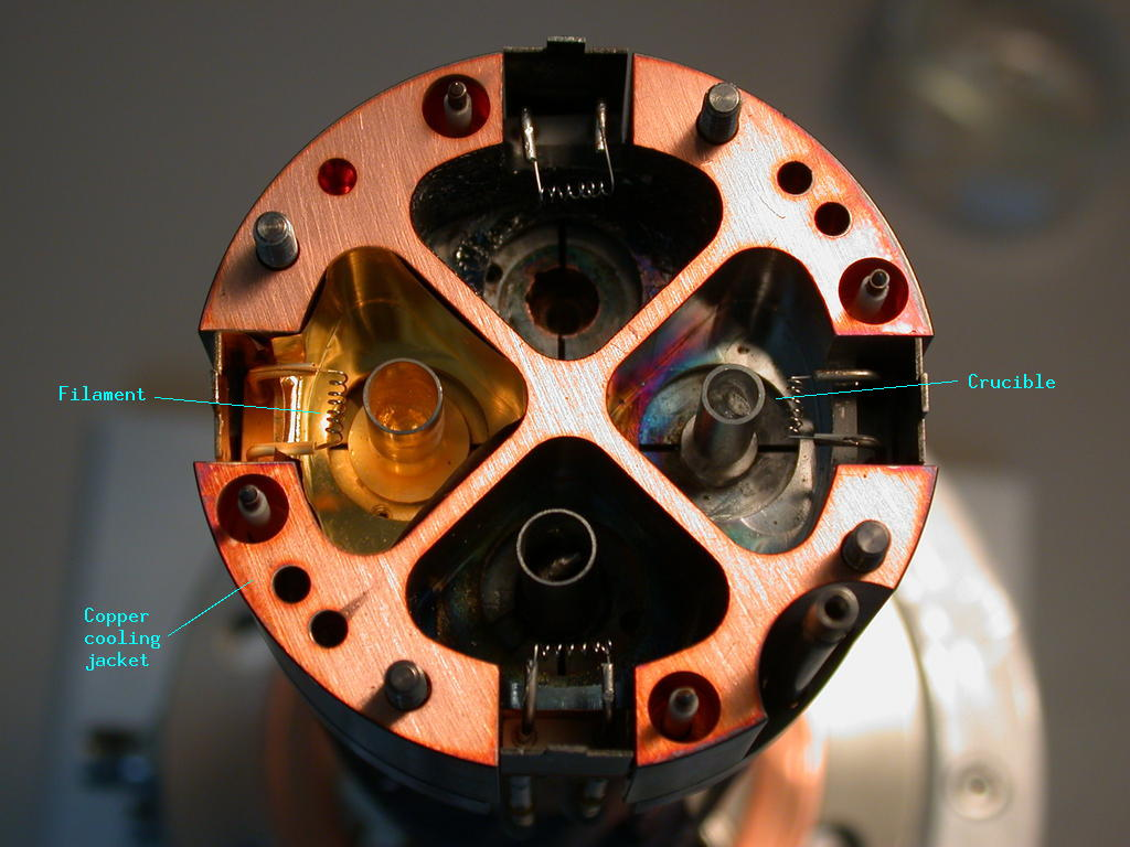 A four-pocket compact electron-beam evaporation source. The current emitted by the heated filament is drawn to the side of the crucible by a high voltage, heating the crucible and causing the material inside to be evaporated. Photo taken at HP Labs by Alison Chaiken using a Nikon 995 camera.